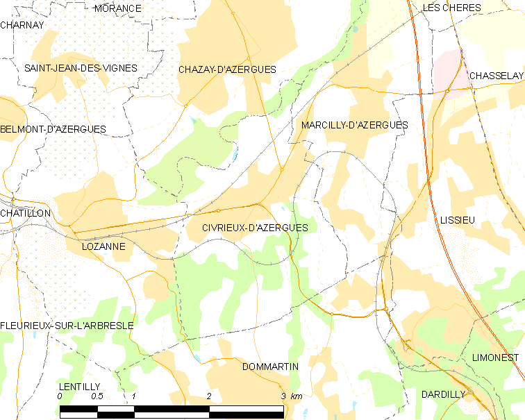 Map of French municipality